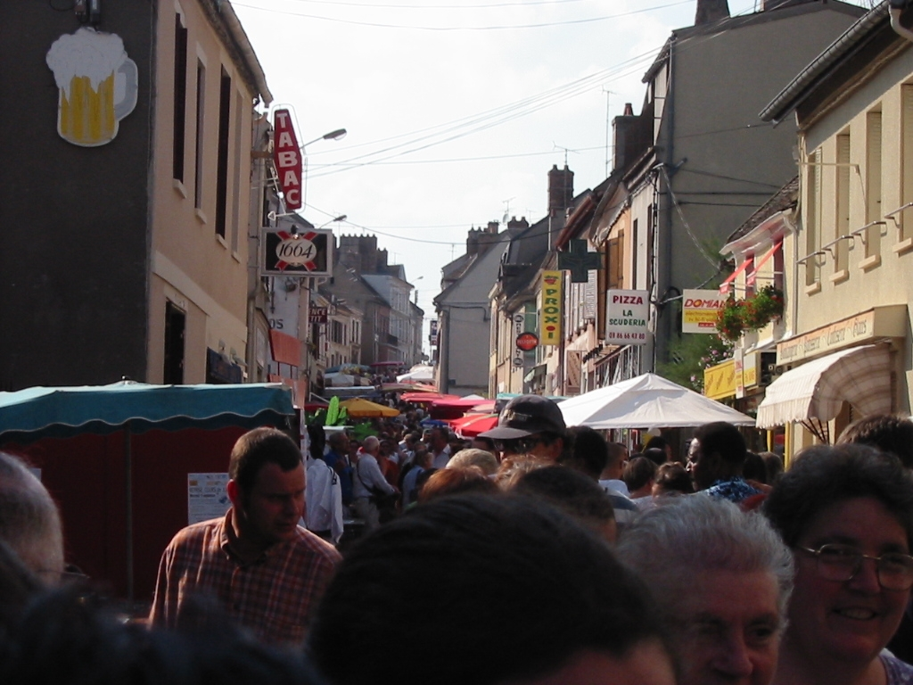 26th "Foire aux Oignons" in Villeneuve-la-Guyard, France 2002